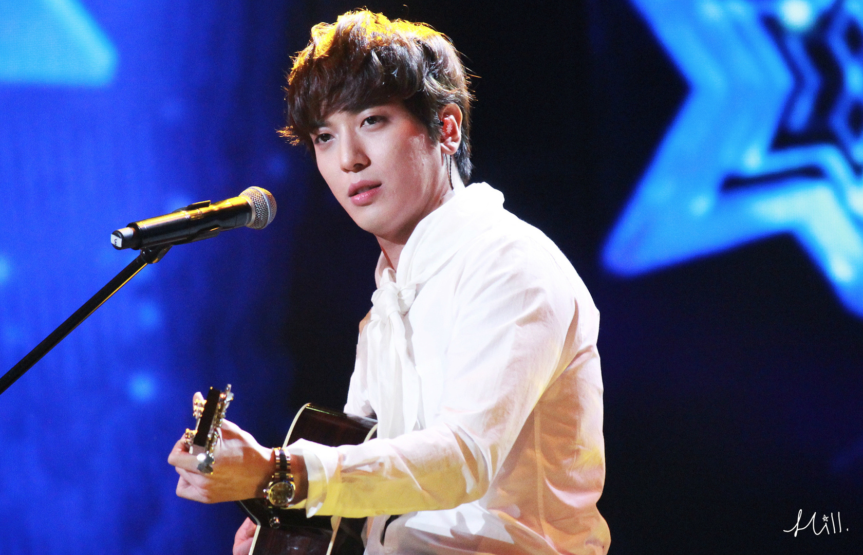 Jung Yong-hwa performing at the Top Chinese Music Awards in Shenzhen, China, on April 13, 2015.